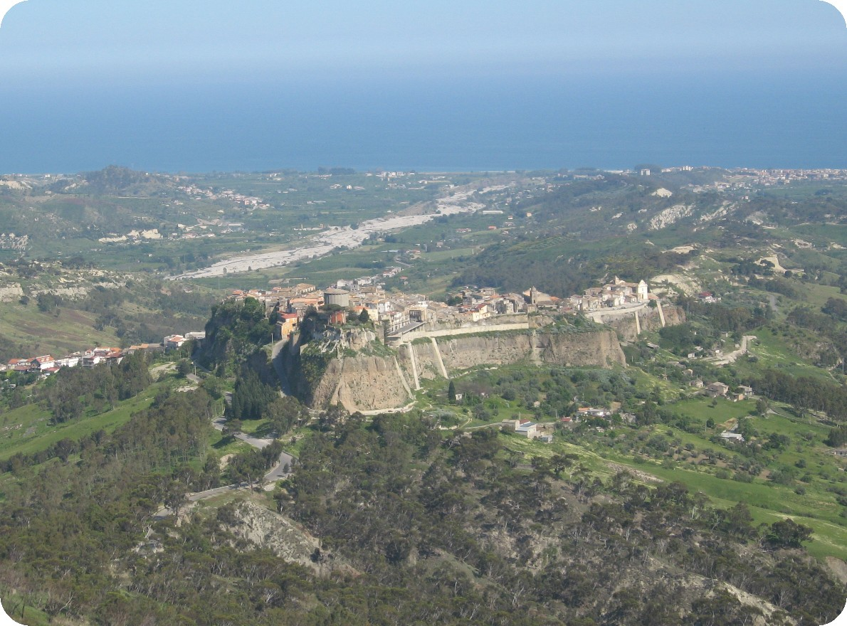 Landscape of Caulonia (RC) - italy